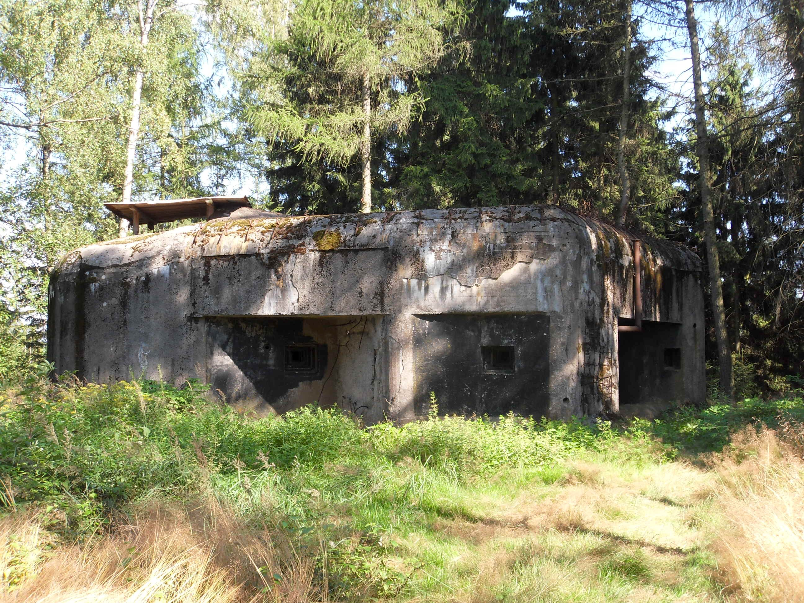 T-S 28 infantry casemate, Trutnov District, Czech Republic